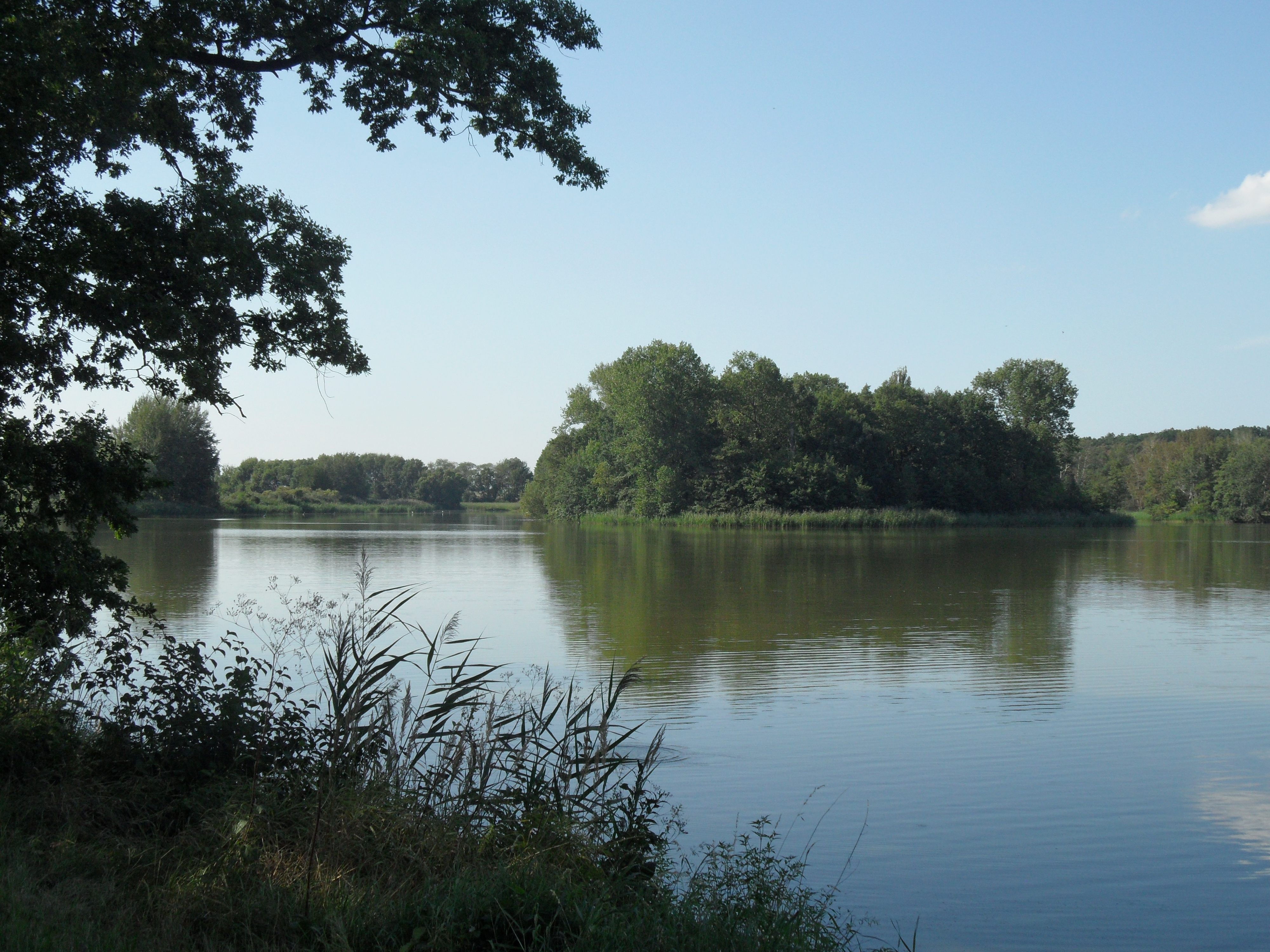 Újezdský Pond (village Újezd u Sezemic), View from the Dam of the Pond. Pardubice District, the Czech Republic.